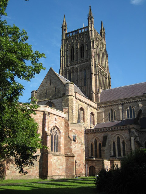 Worcester Cathedral Worcester Cathedral in morning sun, viewed from College Green.